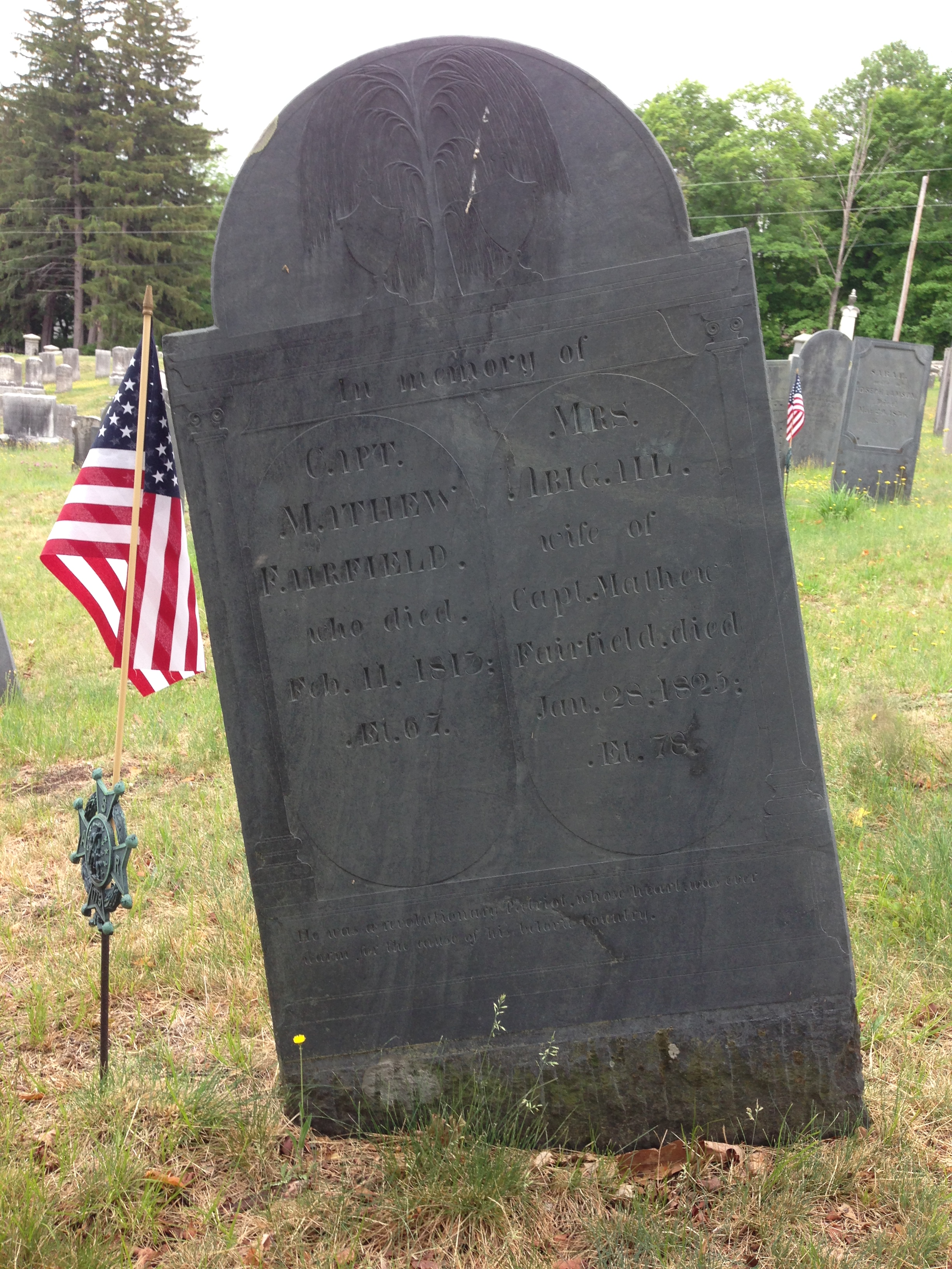 Joint gravestone of Matthew Fairfield (1745-1813) and Abigail (Ayer) Fairfield (1746-1825)